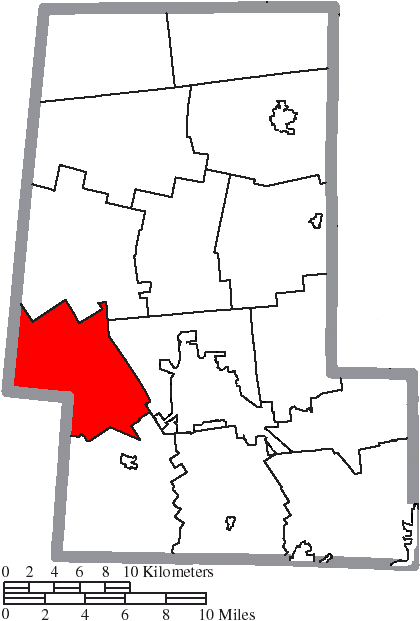 Map of the municipal and township boundaries of Union County, Ohio, United States, as of the 2000 census, with the location of Allen Township highlighted. Township borders are shown only in unincorporated areas in order to differentiate incorporated and unincorporated areas more clearly.